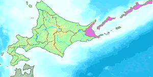 Nemuro shinkokyoku subpref